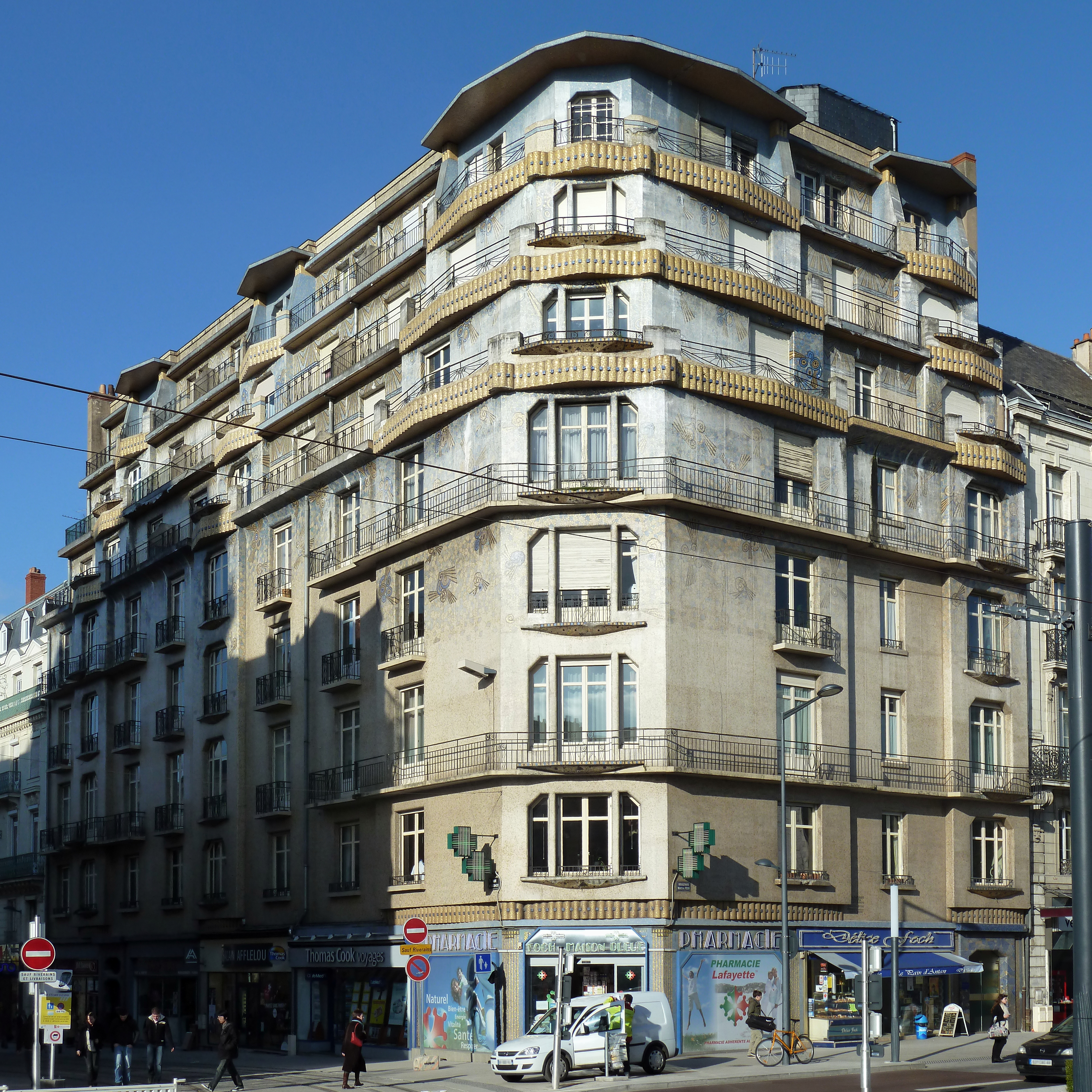 The Maison Bleue (Blue House), a 20th century Art Deco building, 25 Alsace Street and 10 Maréchal-Foch Boulevard in Angers, Maine-et-Loire, Pays de la Loire, France.